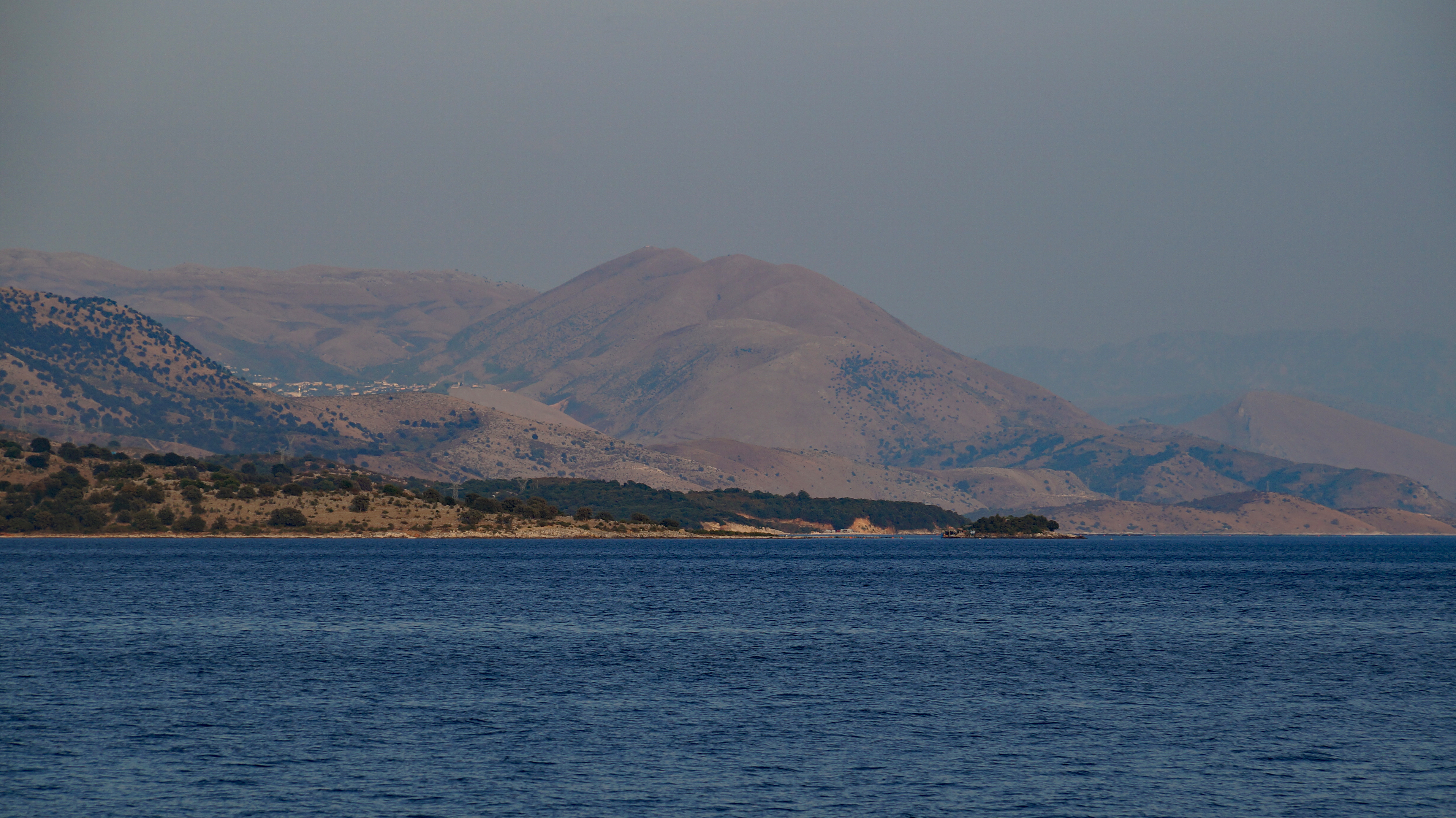 The coast in the South of Albania around Cape Stillo with the island of Stillo